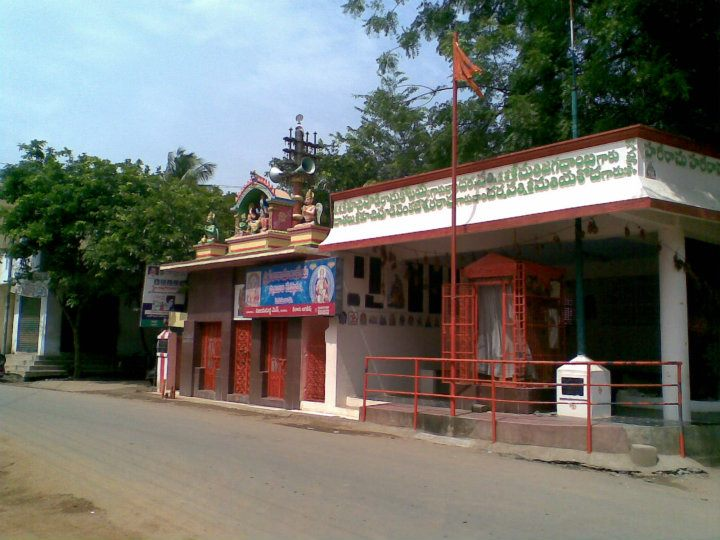 Chinna gudi